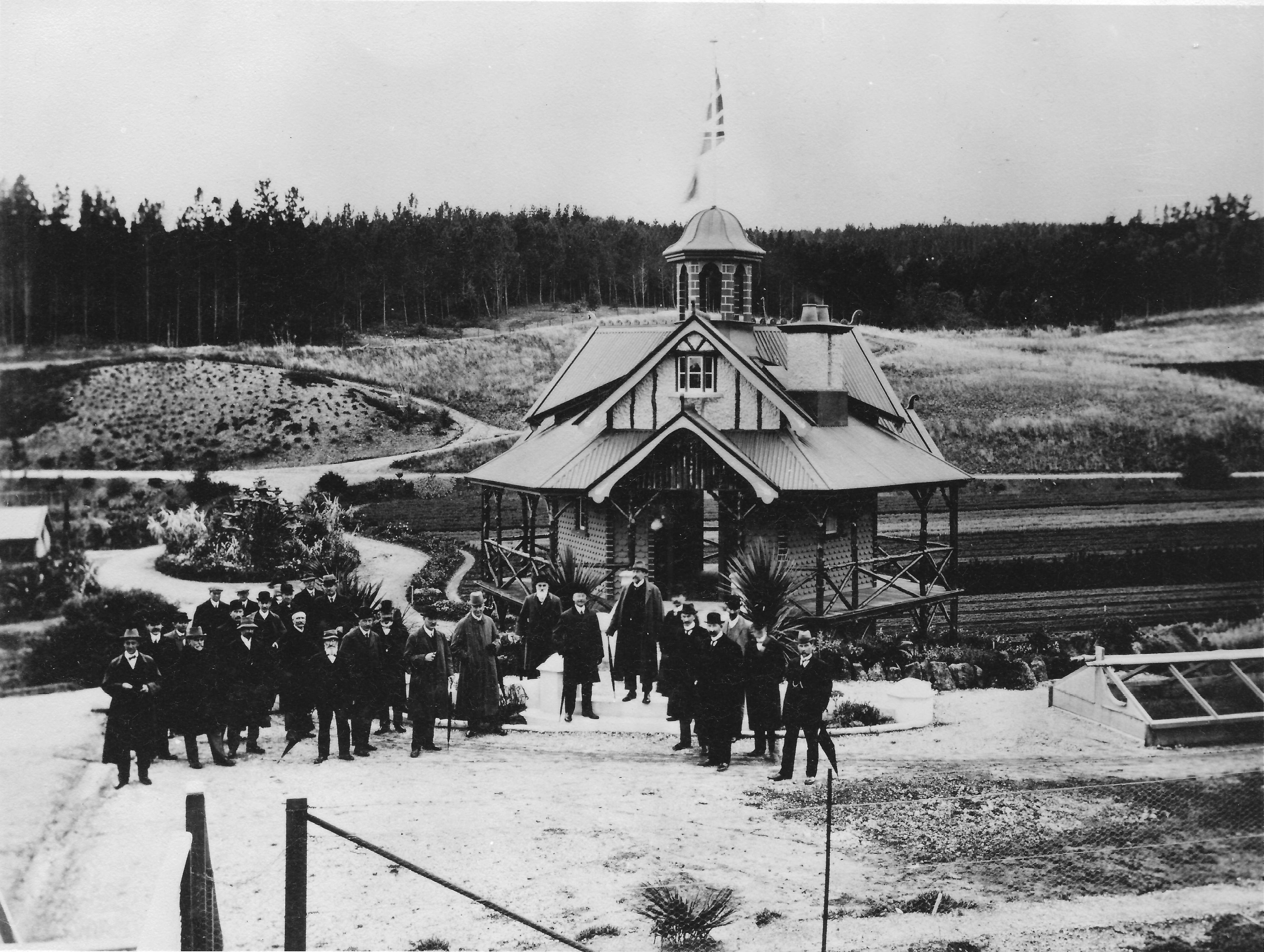 Photo